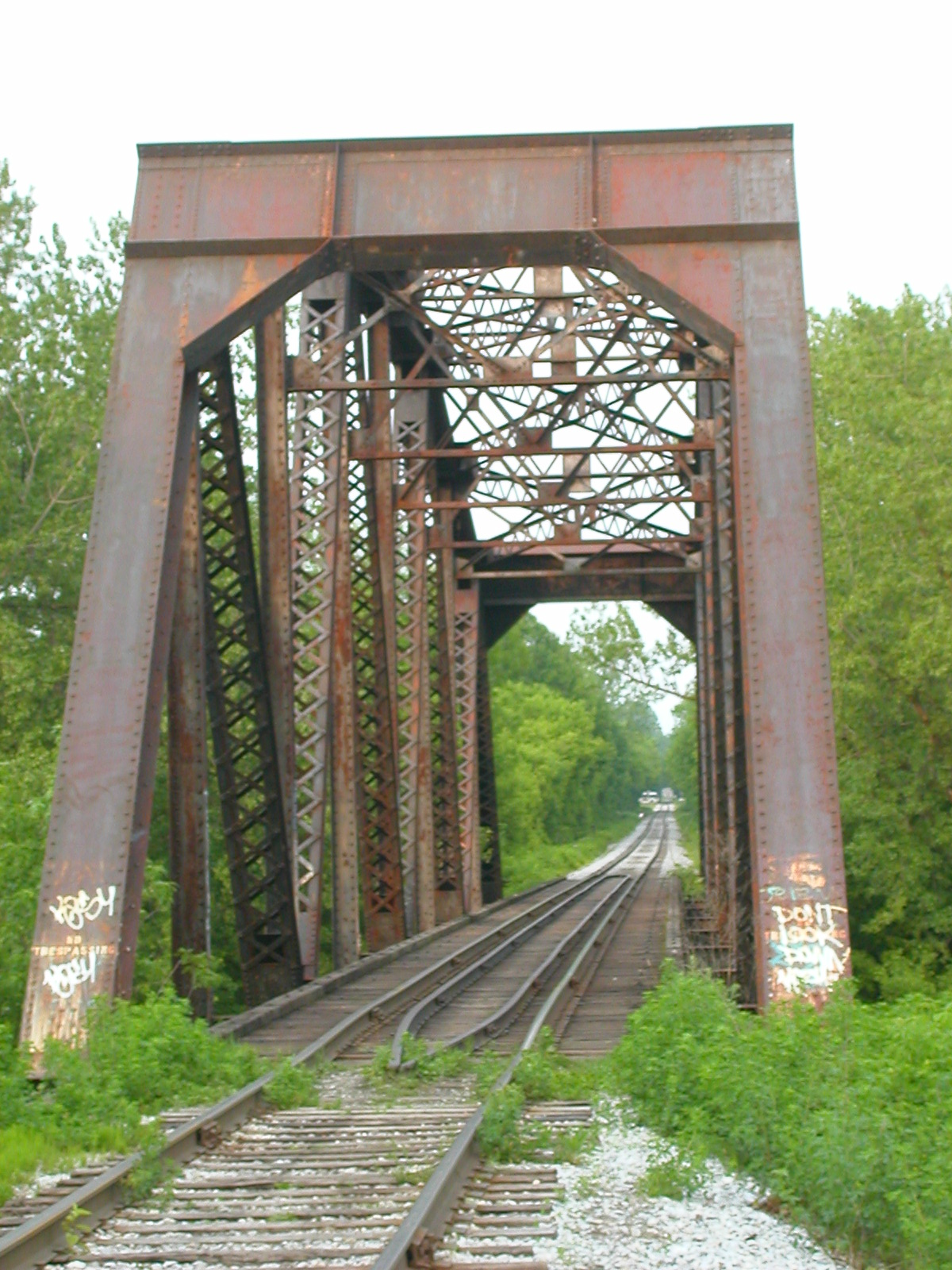 Railroad bridge on the New England Central RR near Winooski VT on 31 May 2006.